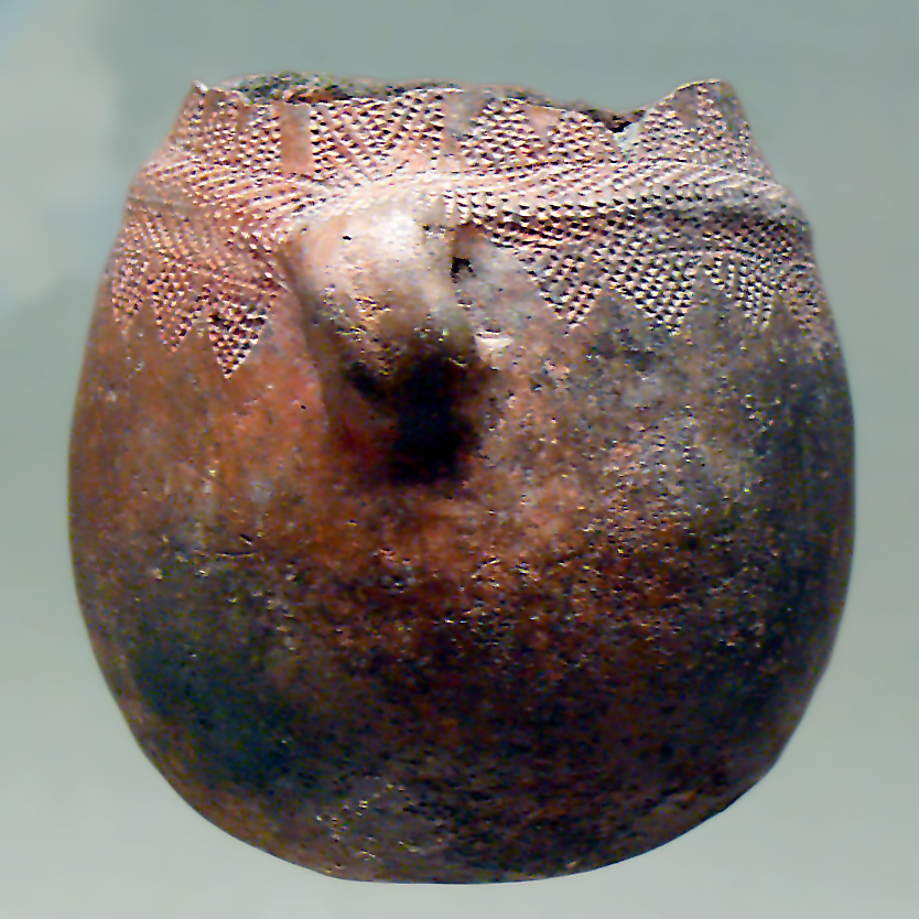 Cardium pottery of Tajos de Cacín cave (Granada, Spain)